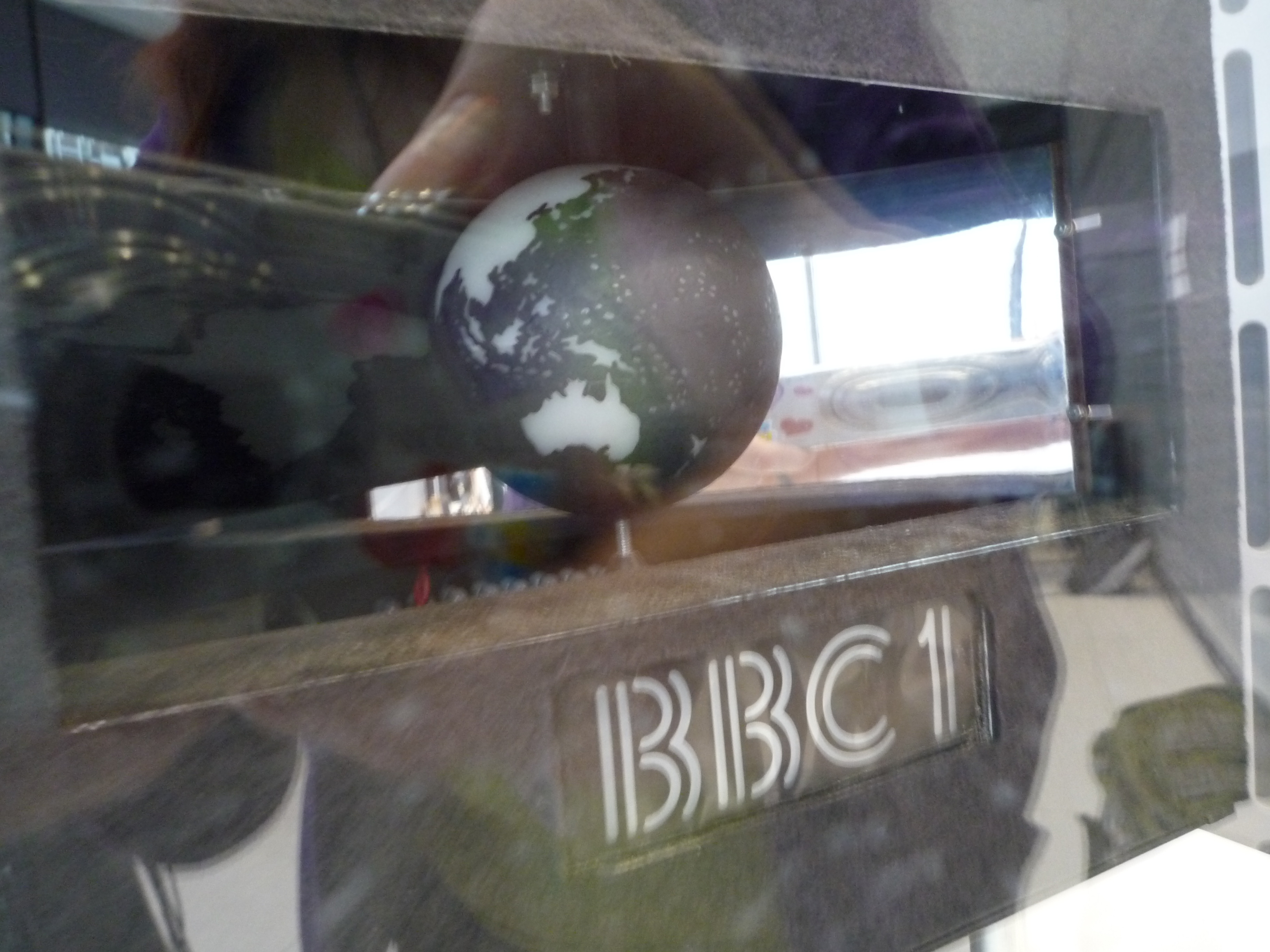 Photograph of BBC Nexus Orthicon Display Device from front, especially showing reflecting surface Other information Poor quality due to unavoidable reflections, hence not uploaded to Commons at present.